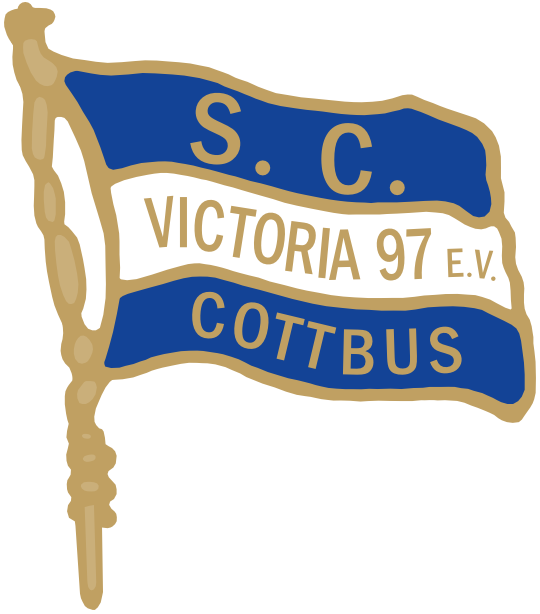 Historical logo of SC Victoria 1897 Cottbus, German football team.